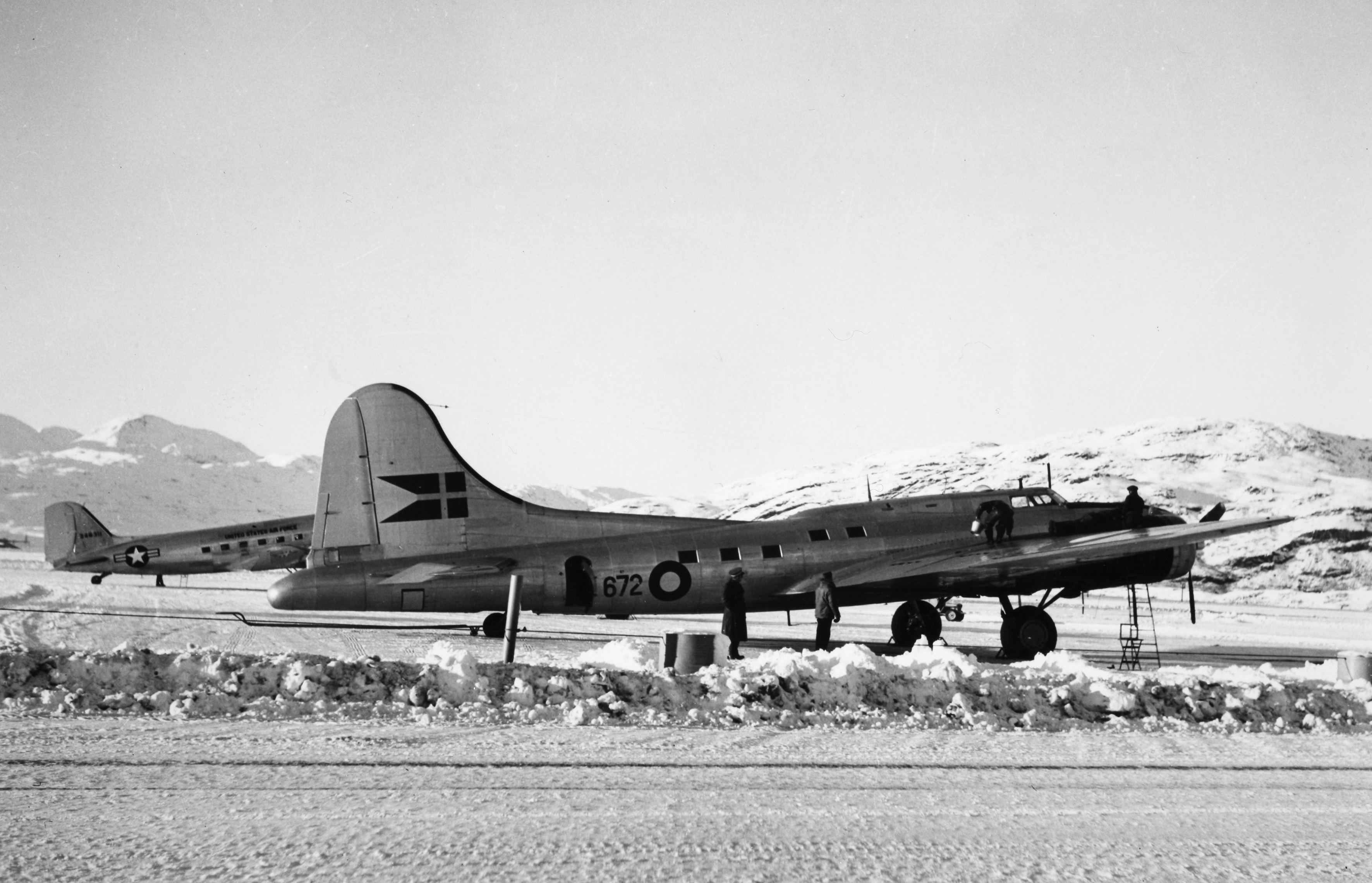 SAS Boeing B-17 1944-1948, OY-DFA, Shoo Shoo Shoo Baby, Greenland